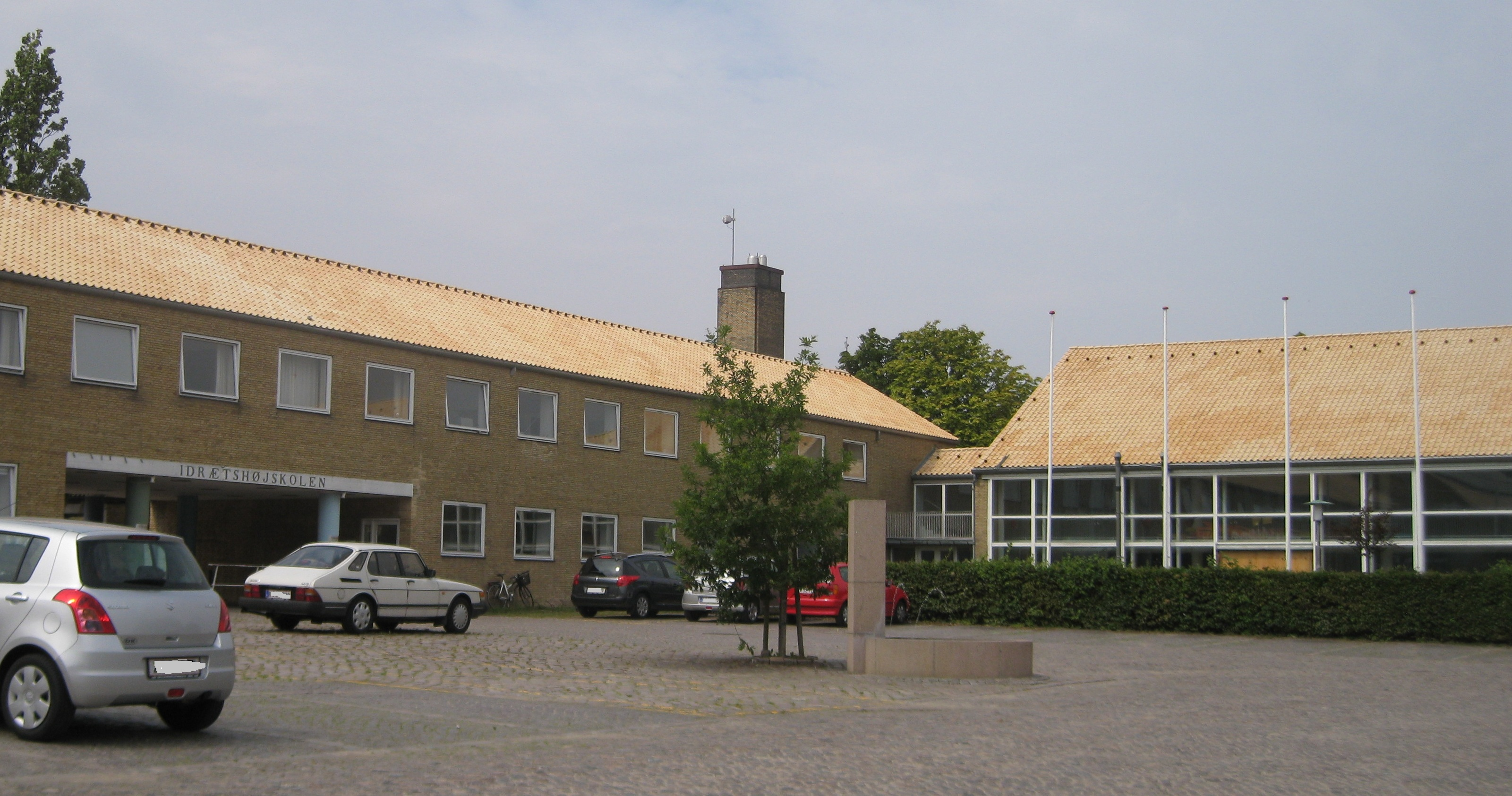 Idrætshøjskolen, Sønderborg, Denmark